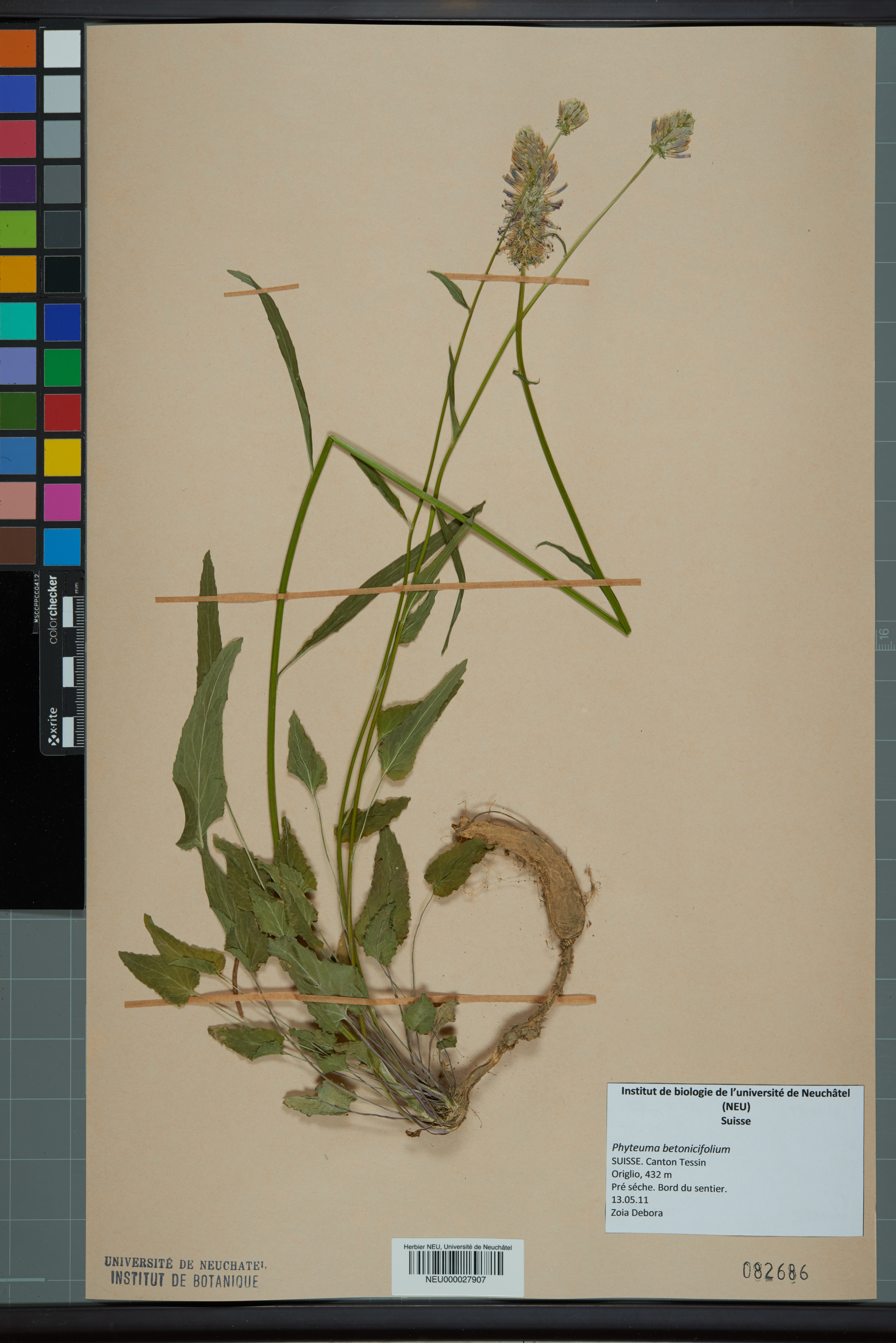 Dried pressed specimen of Phyteuma betonicifolium